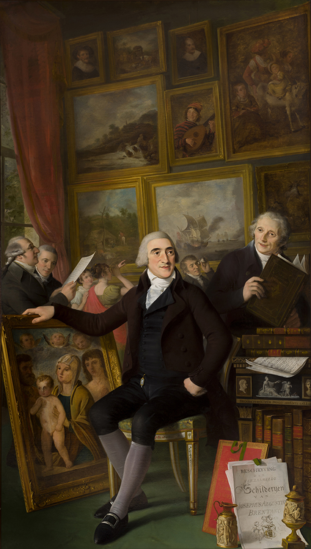 A portrait of famous art collector J. A. Brentano by Adriaan de Lelie, who is also depicted in the painting. 1813, Oil on canvas. Property of Stichting Brentano's Steun des Ouderdoms, Amstelveen